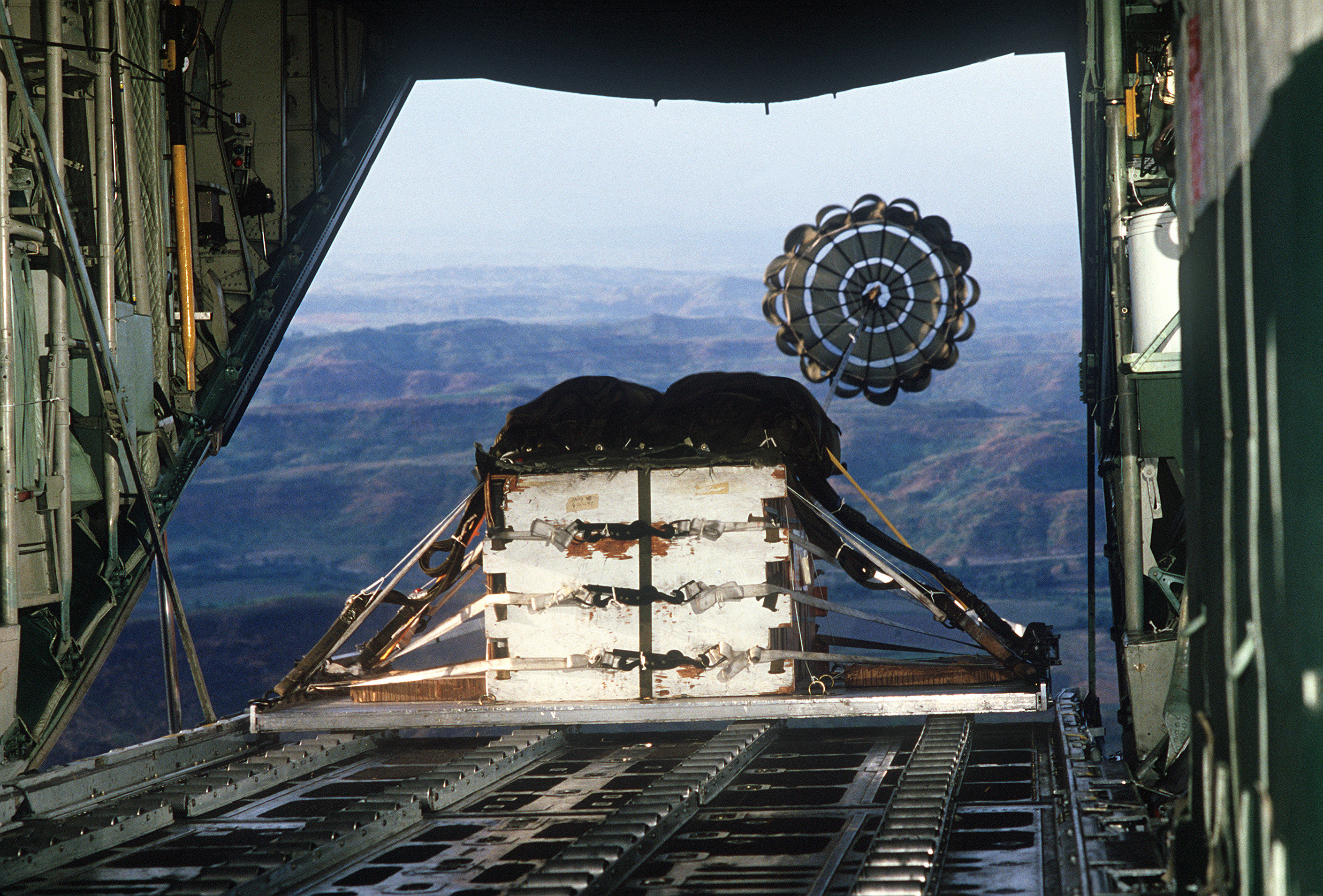 A pallet loaded with heavy cargo is airdropped from a C-130 Hercules aircraft during tactical airdrop training flight for members of the 345th Tactical Airlift Squadron. Eight air crews and two aircraft are deployed from Yokota Air Base, Japan, to Clark Air Base for the exercise.